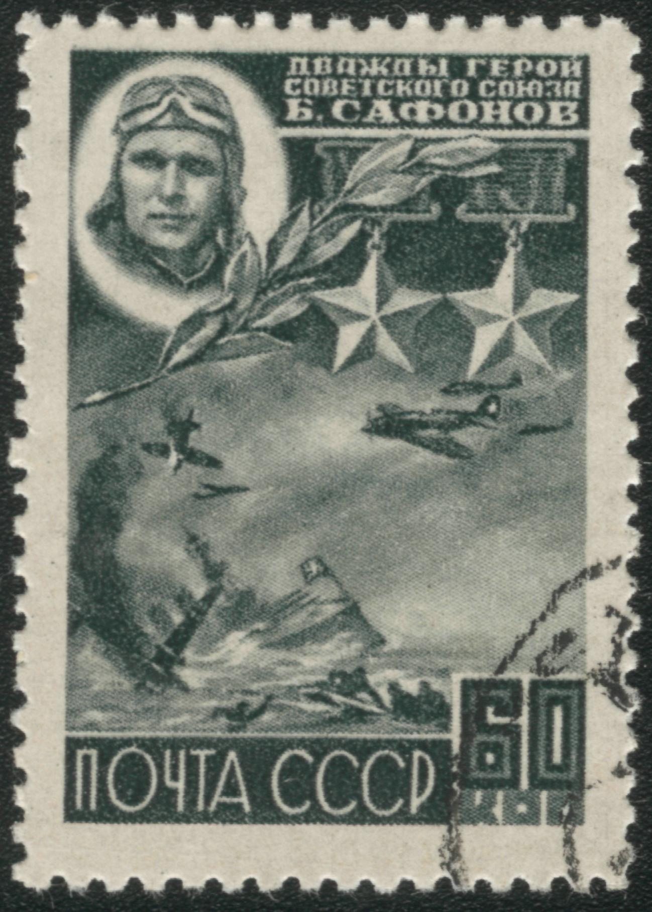 USSR stamp, 1944, Boris Safonov, Soviet fighter-plane pilot. CPA #926, 60 kopecks, used.